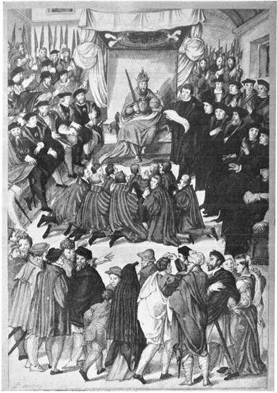 A contemporary drawing of the humiliation of the leaders of the rebellion that occurred in Ghent during the reign of Charles V.